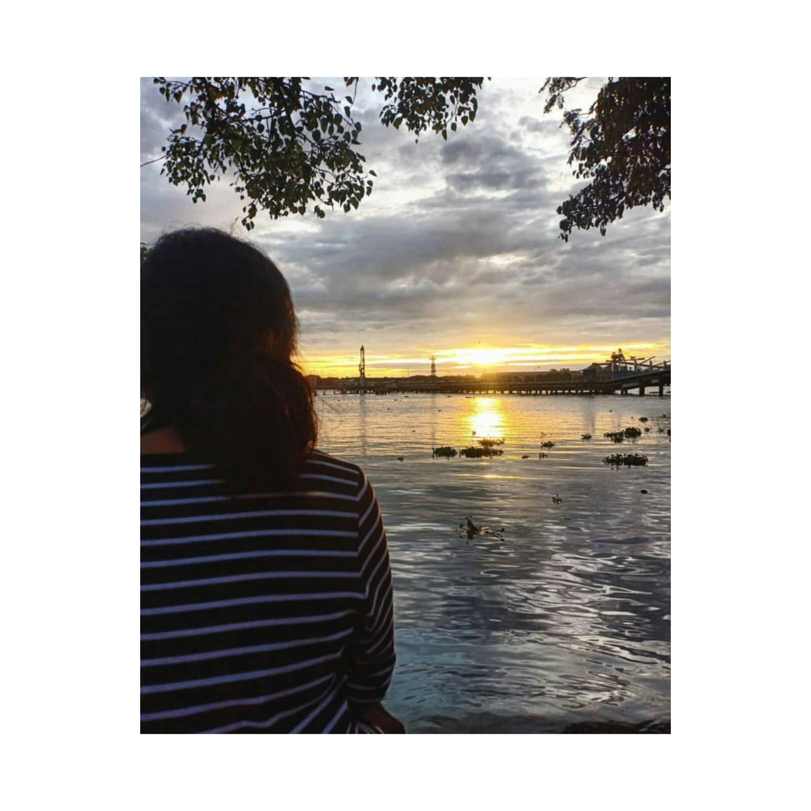 Evening view from Marine Drive Kochi